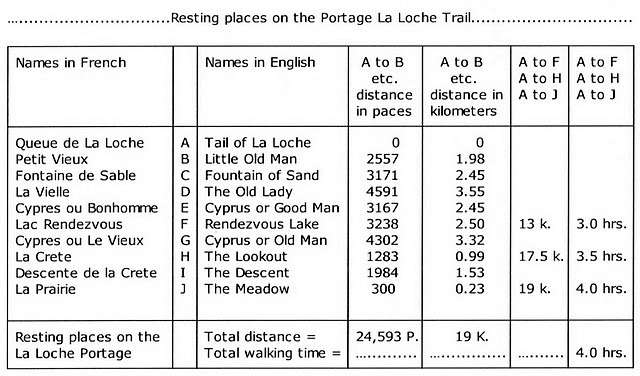 Resting places on the Portage La Loche trail in French and English, in paces and kilometers.